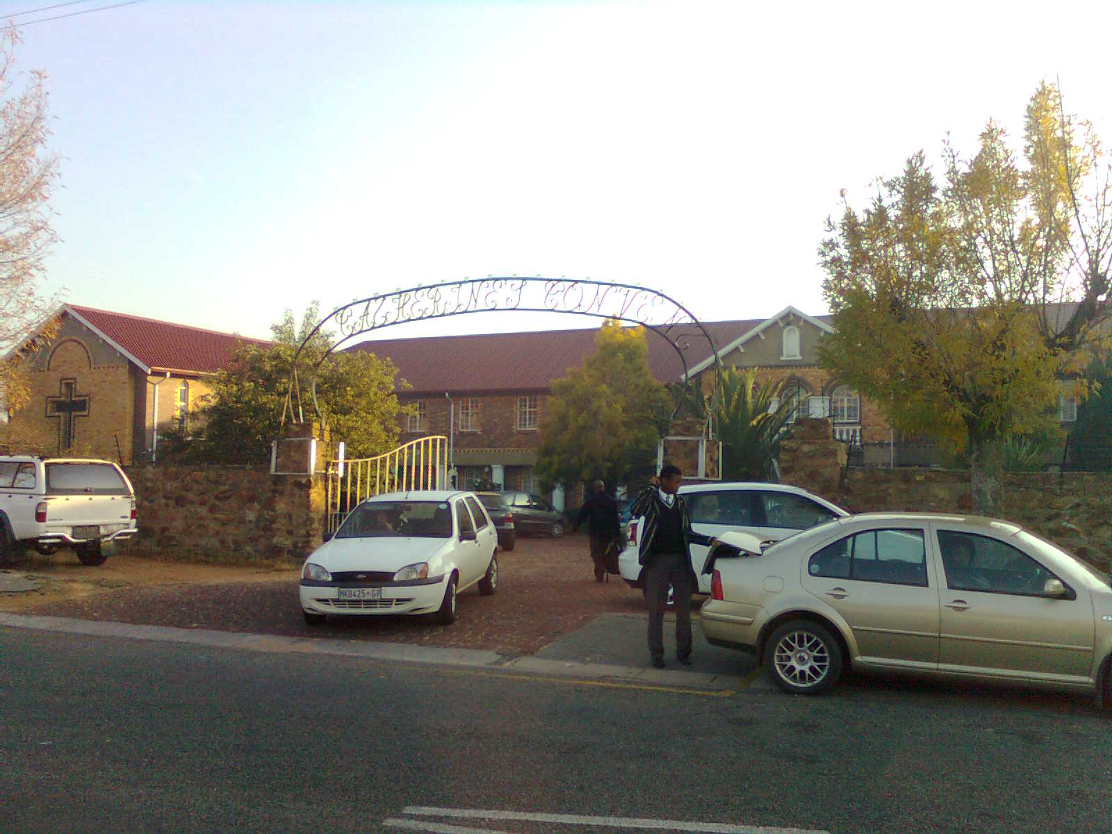 St. Catherine's main gate in the morning